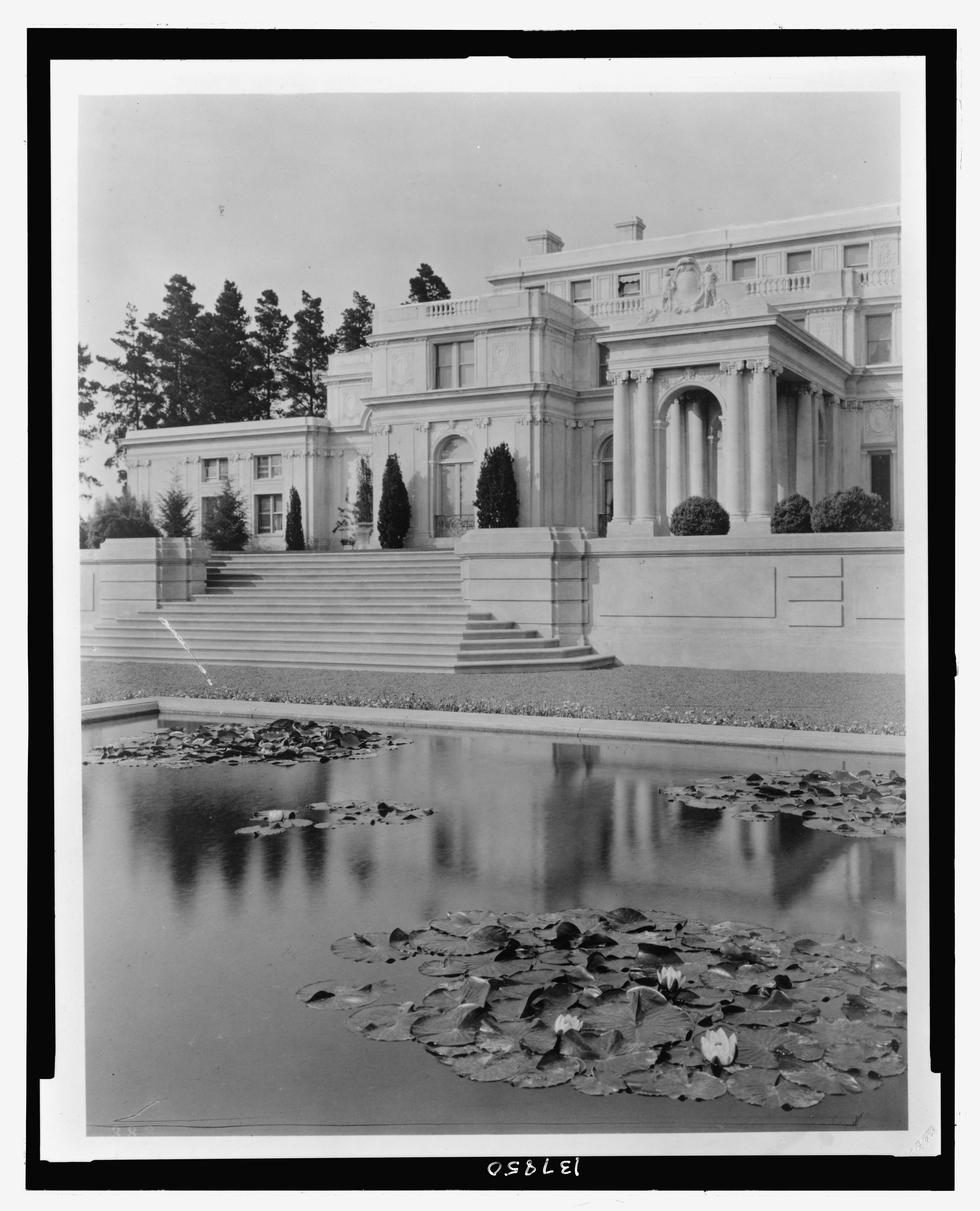 Title: "Uplands," Charles Templeton Crocker house, 400 Uplands Drive, Hillsborough, California. View to reflecting pool Abstract/medium: 1 photographic print.